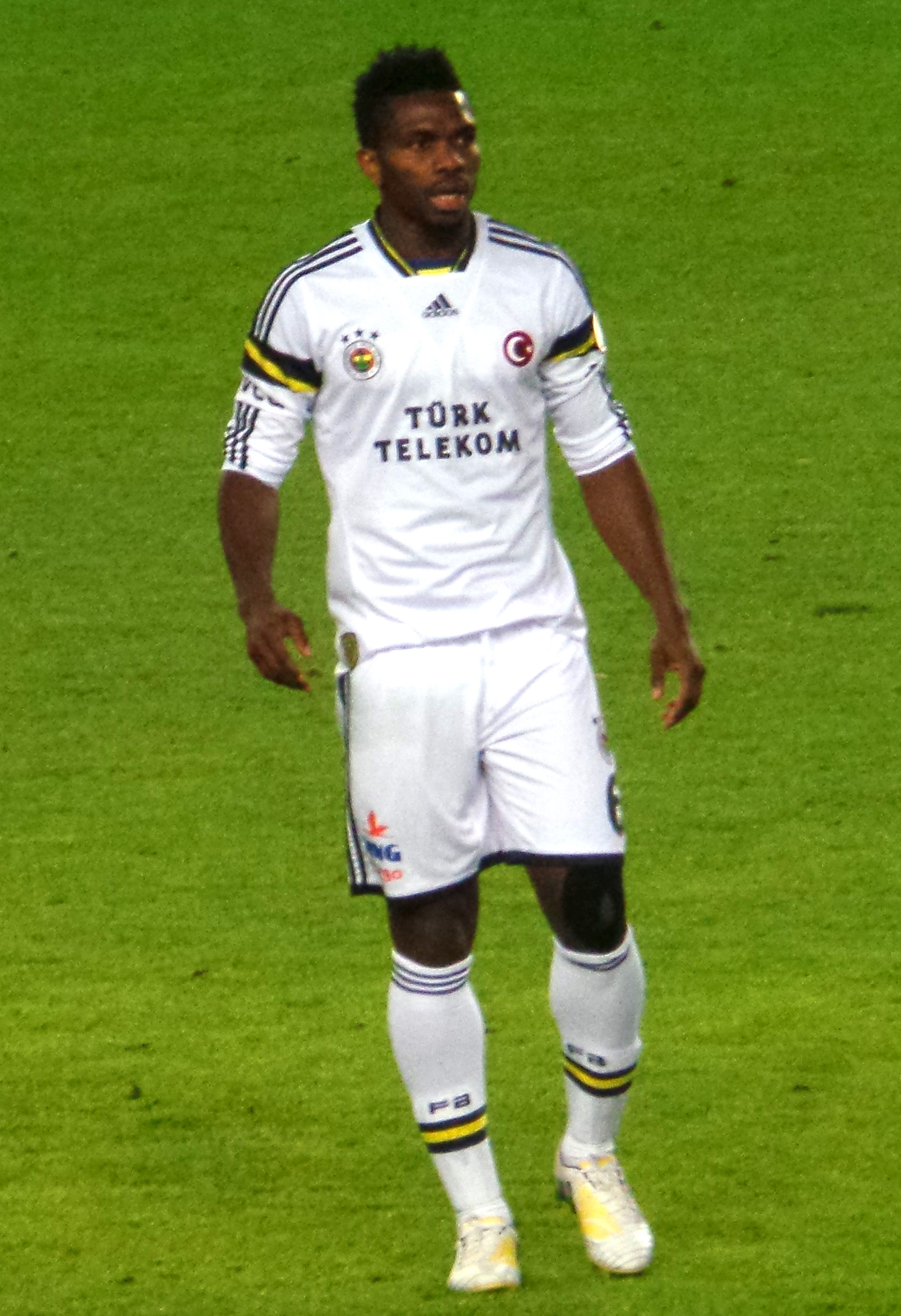 JosephYobo'13